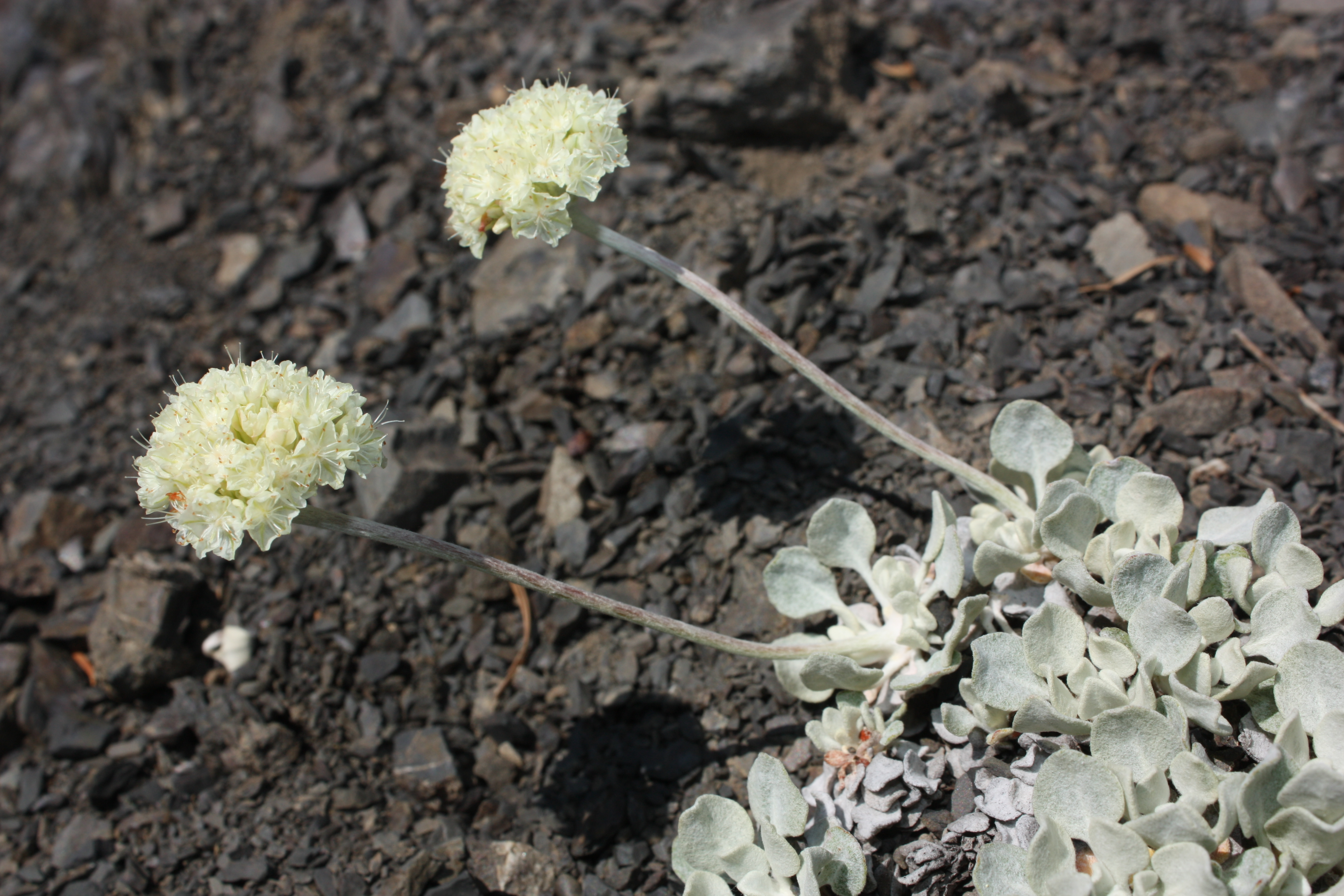 Cushion Buckwheat Viewpoint location: Deer Ridge Trail, Olympic National Park Viewpoint elevation: 1638 meter (5373 ft) Location source: Garmin GPSmap 60CSx Location Datum: WGS84